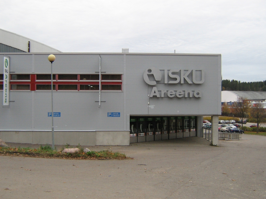 Isku Areena in Lahti, Finland